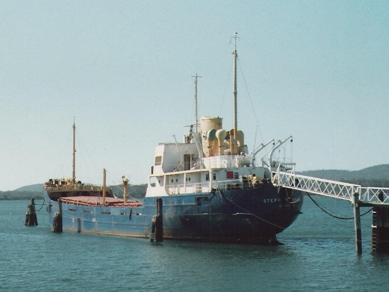 Australian Maritime College training vessel Stephen Brown moored at Beauty Point, Tasmania IMO number : 5340687 Gross tonnage : 1464 Type of ship : Training Ship Year of build : 1954